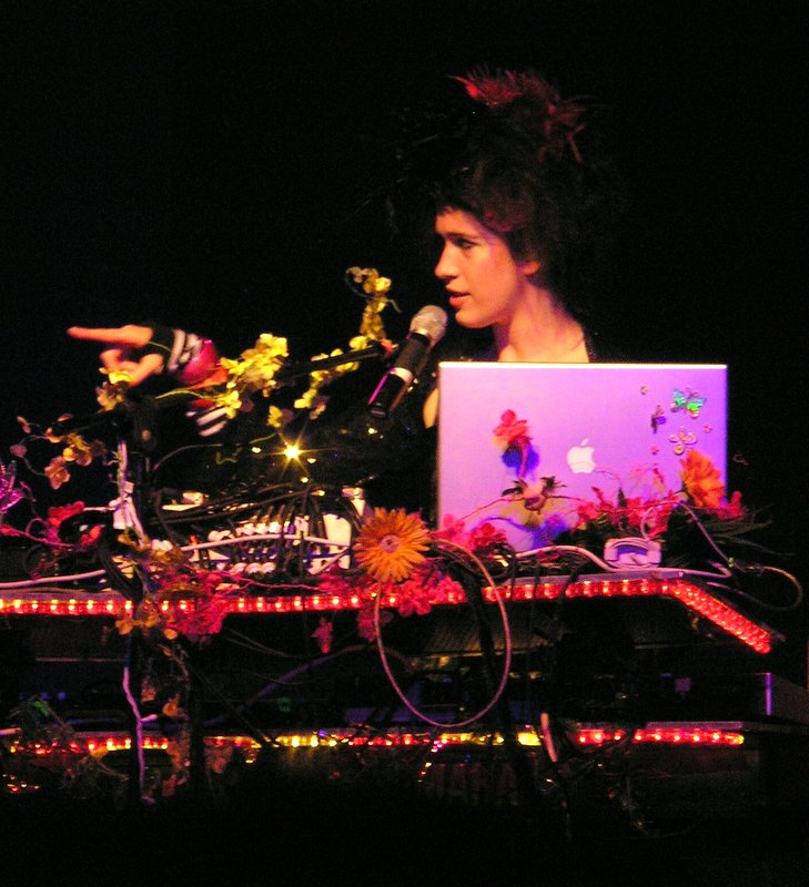 Check out her performance of ”Let Go” from that evening…